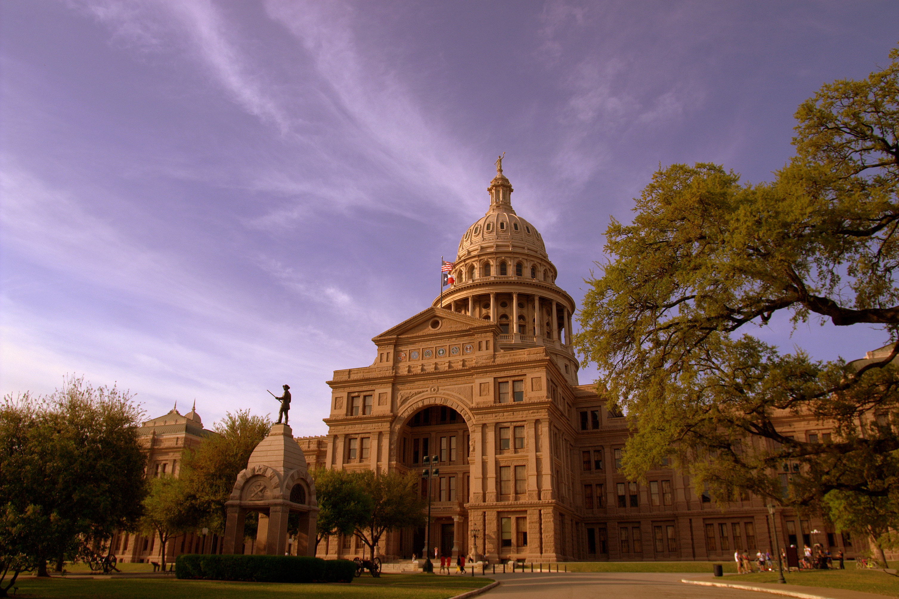 Texas State Capitol, Austin TX